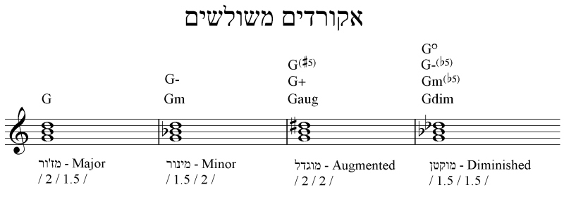 Triads, in Hebrew.